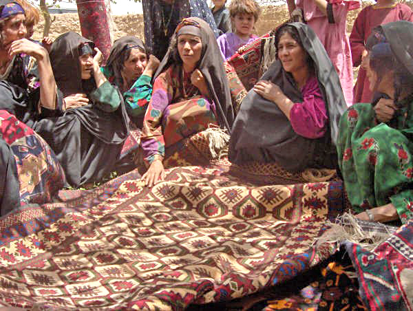 Widows in the Adraskan District of western Afghanistan voted to form an association to produce and market traditional wool carpets in a USAID funded project.